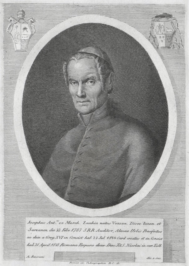 Kardinal Giuseppe Antonio Zacchia (1787-1845)